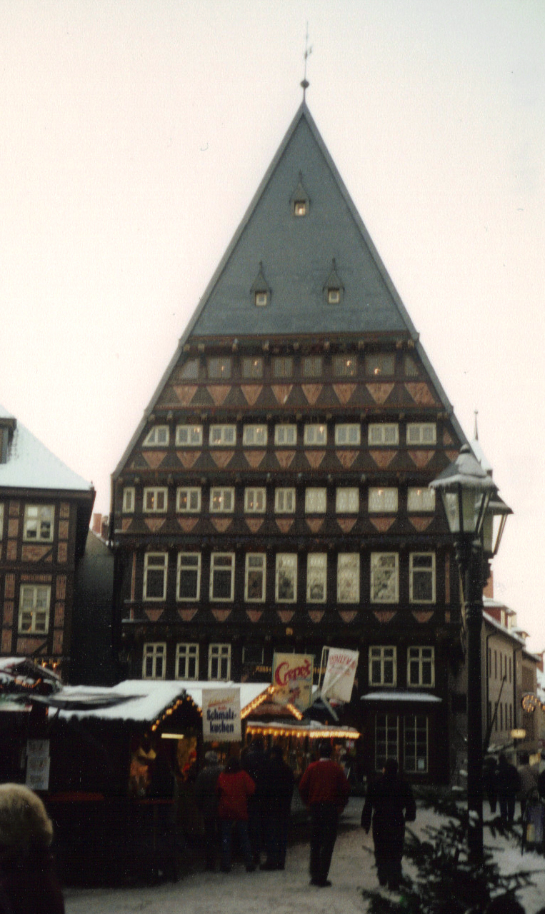 Christmas Market in front of the Butchers' Guildhall in Hildesheim.